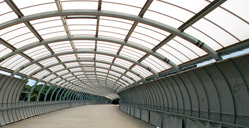 The pedestrian skybridge linking the tennis facilities of the Melbourne Park with the Melbourne Cricket Ground\ (MCG).